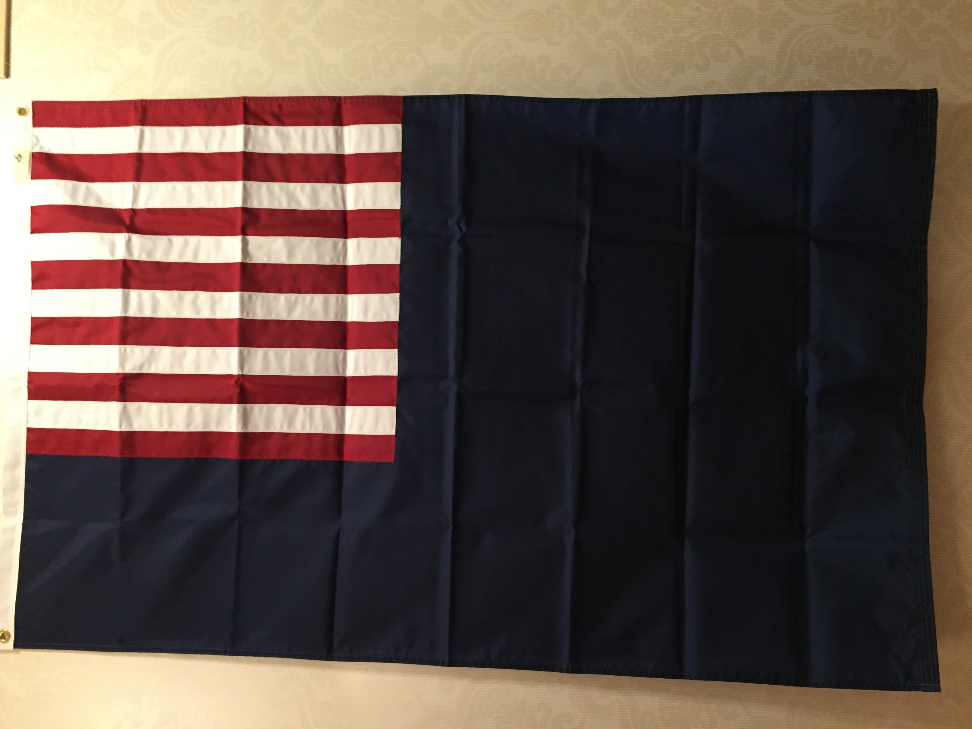 Reproduction of the Pennsylvania navy ensign. An ensign is the flag flown from the rear of the ship. This flag was used by the Pennsylvania navy during the United States' Revolutionary War in the late 1700s.